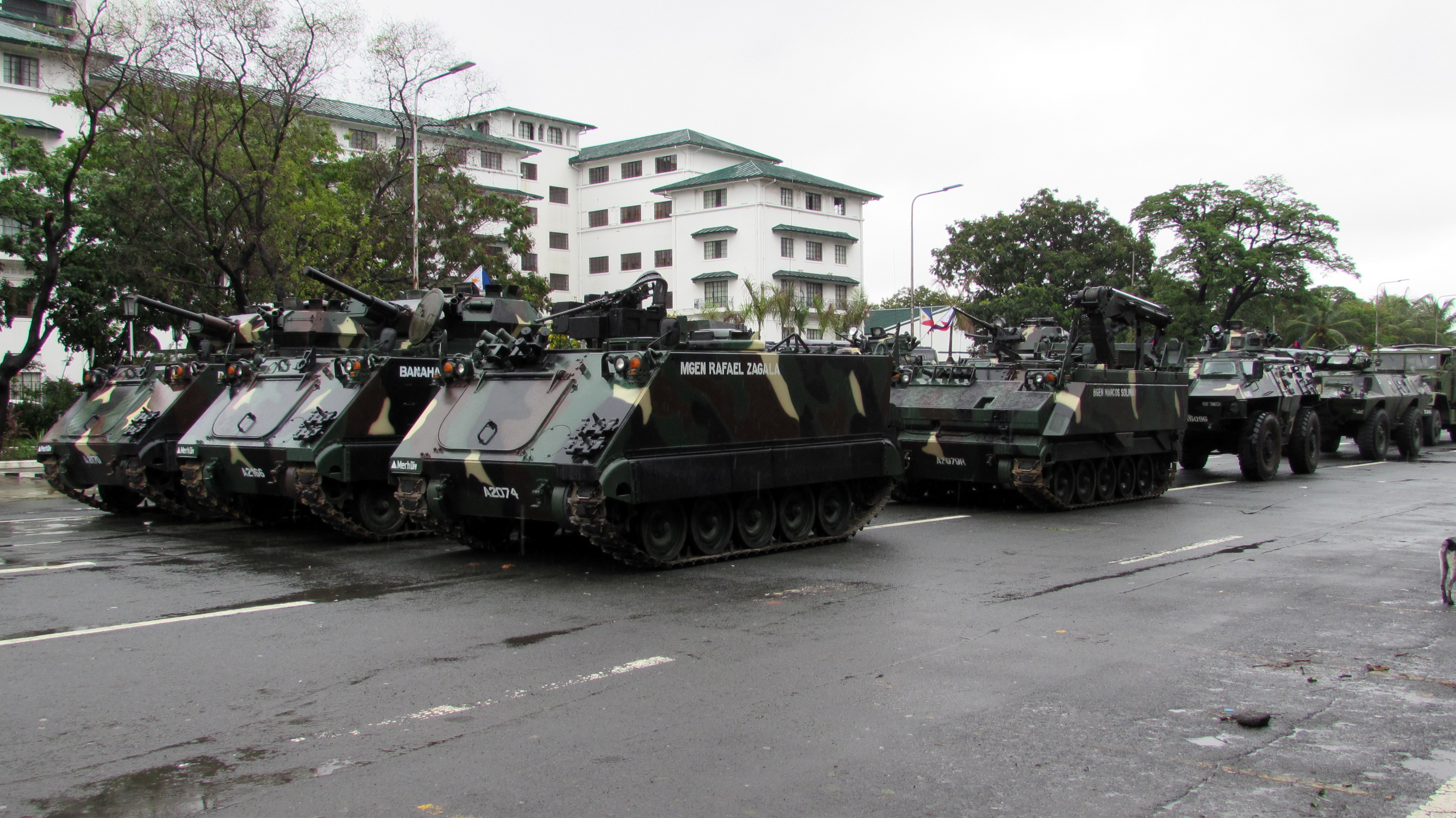 Rows of Philippine Army (PA) vehicles. Photo taken during the 2018 Kalayaan Parade in Luneta.